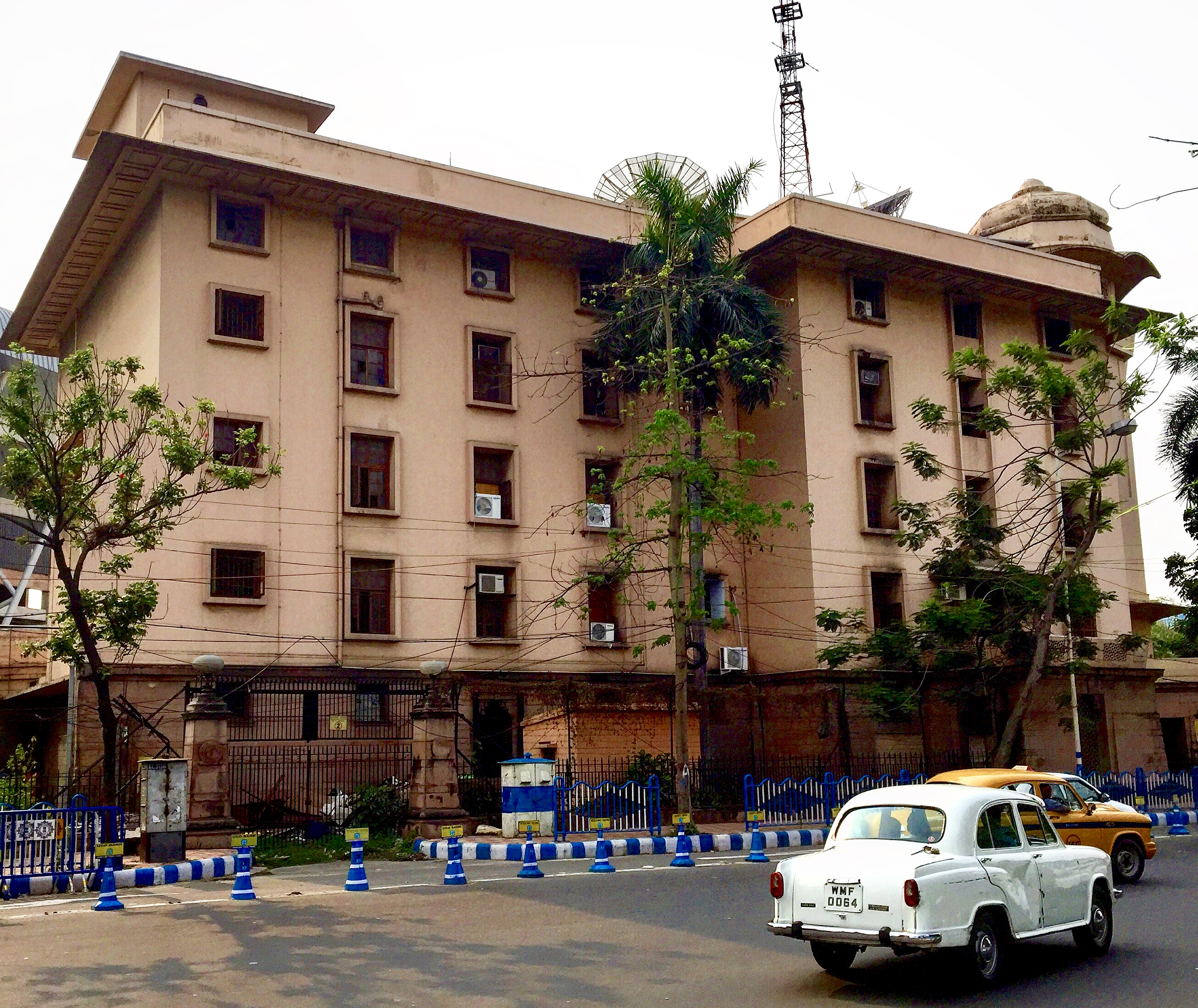 Akashbani Bhavan in Kolkata.